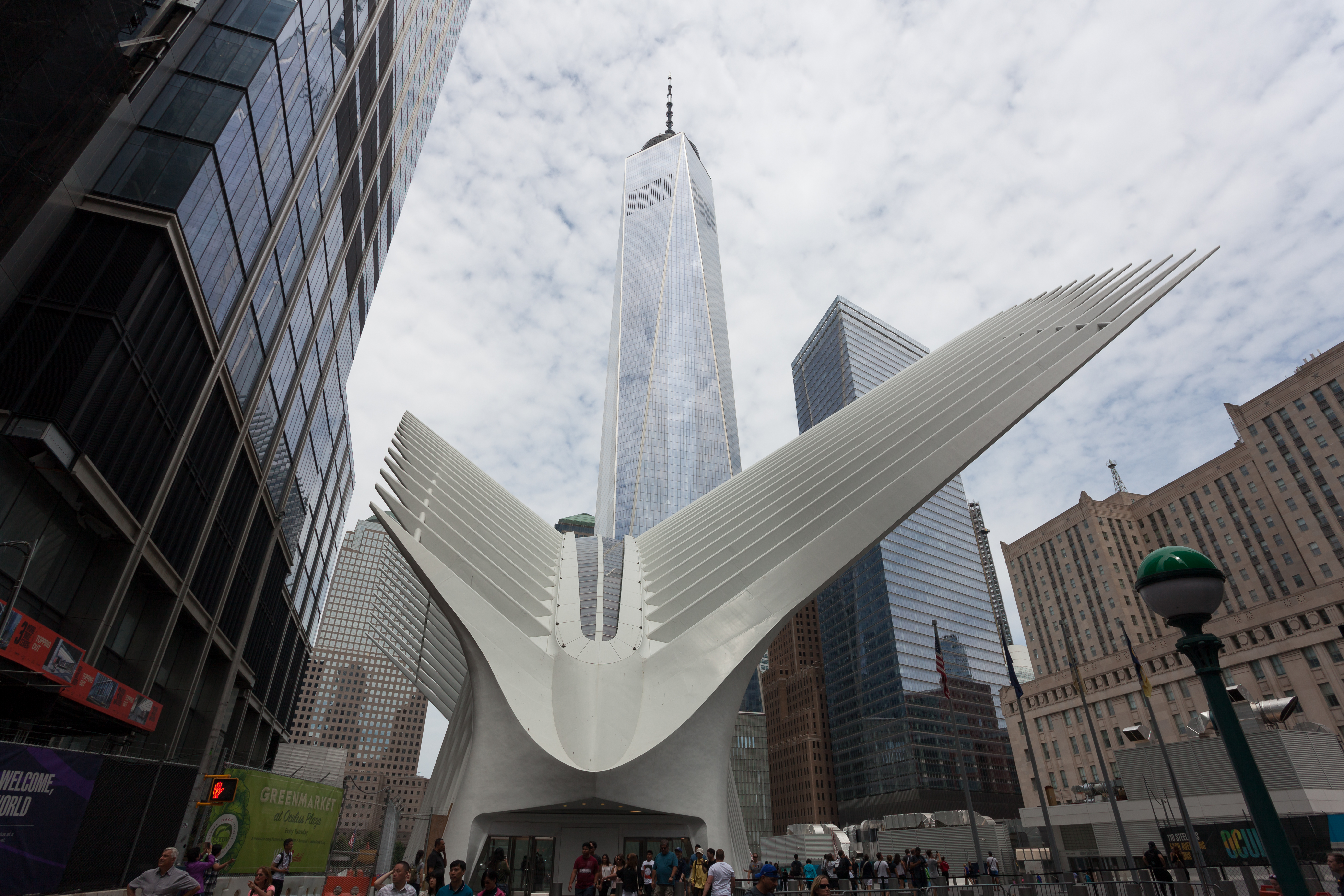 The WTC Transportation Hub in front of the One World Trade Center